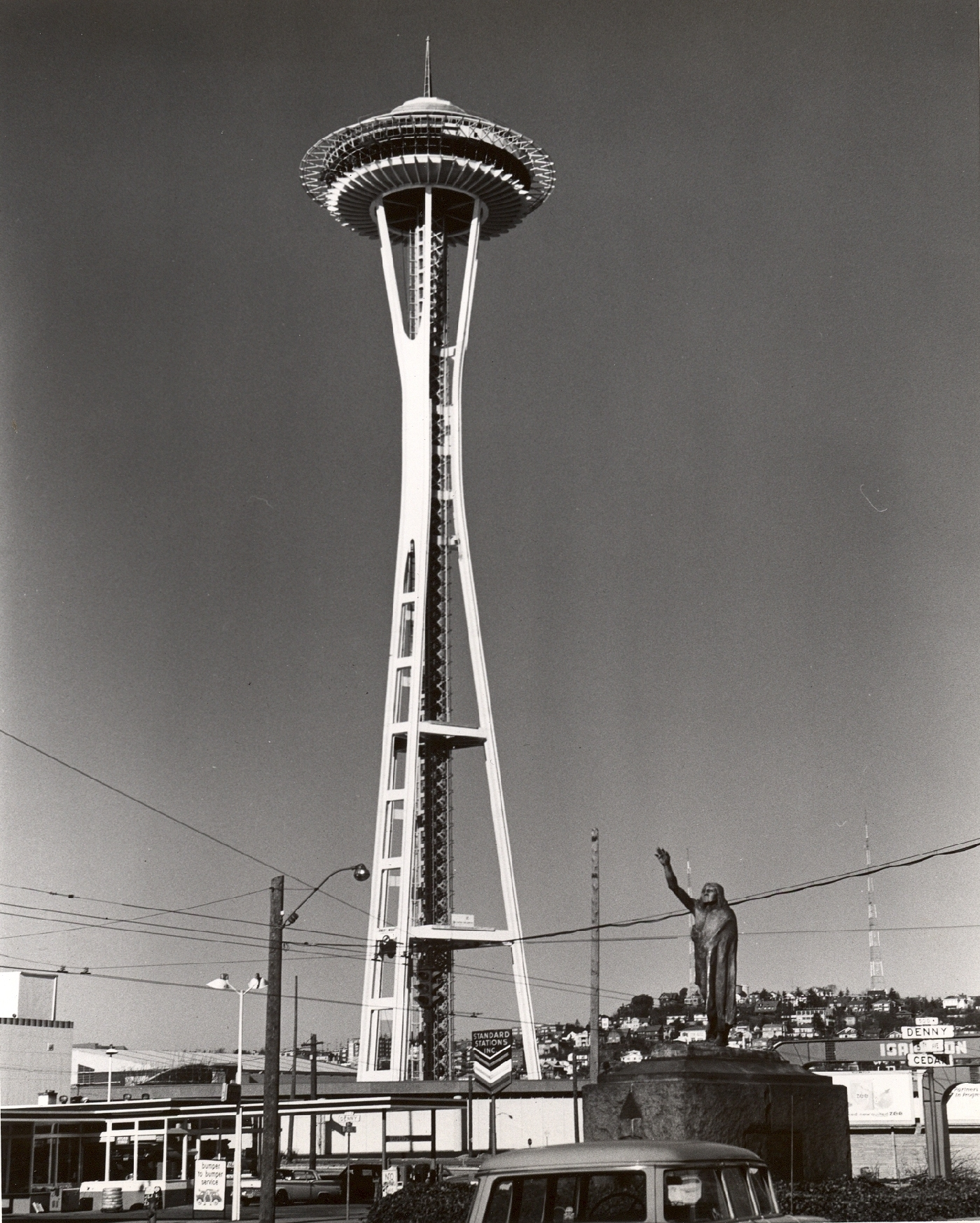 An image of the Seattle Center Space Needle in Seattle, Washington, United States. The view of the lower portion of the Space Needle from Five Points/Tilikum Place is now blocked by Fisher Plaza.